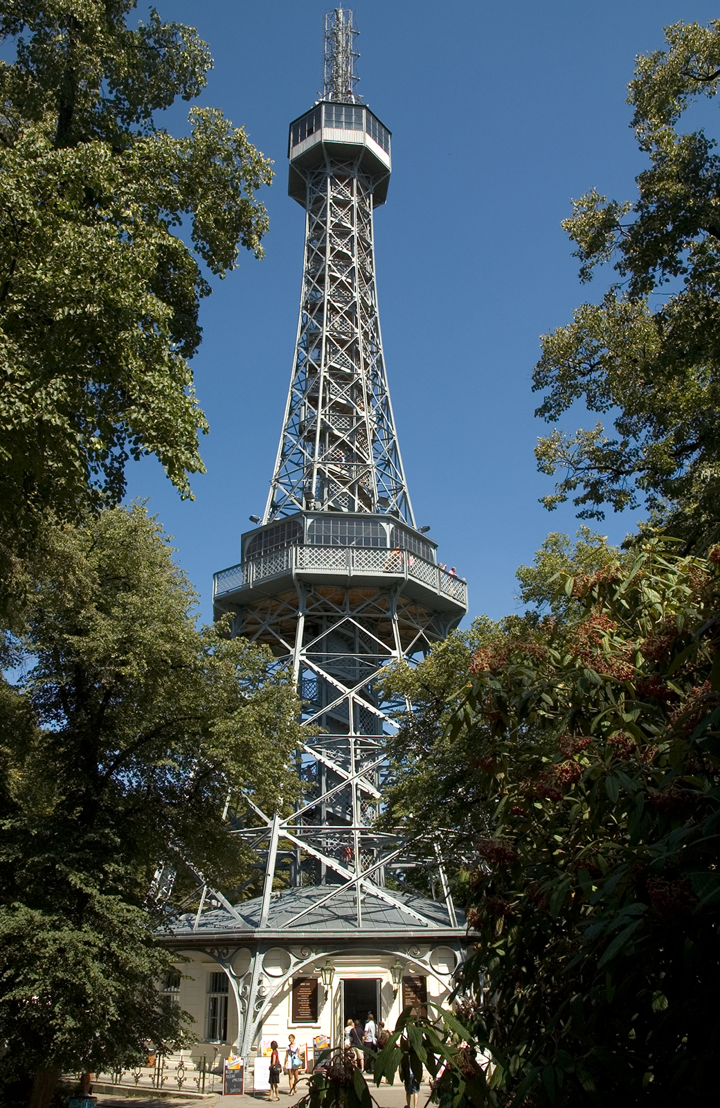 Petrin Observation Tower